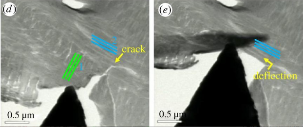 Fiber directions shown to govern crack propagation in TEM images of dactyl club. TEM specimen made by focus ion beam milling. Crack shown to be 90 degrees, between different fiber orientations